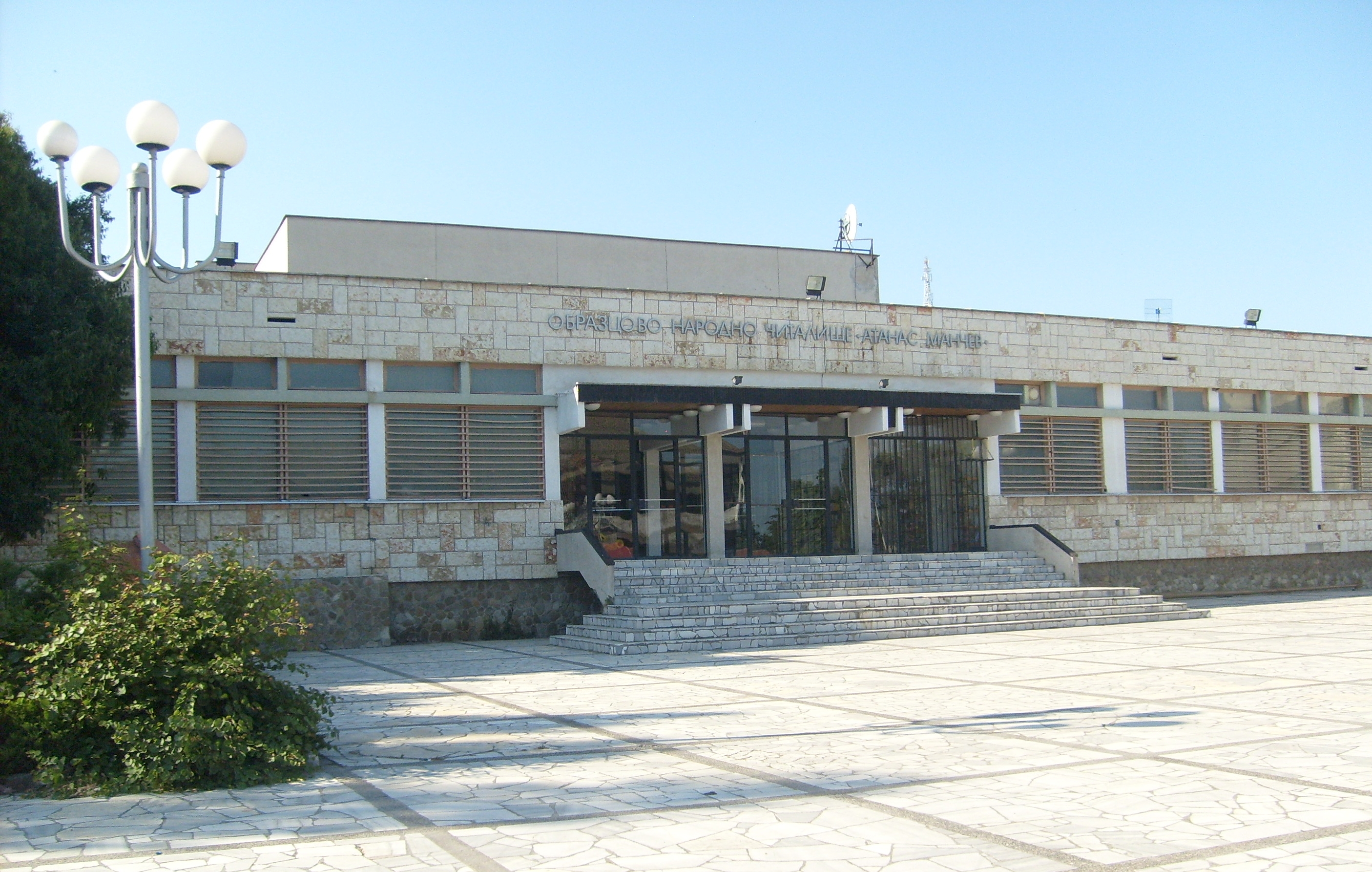 Cultural club "Atanas Manchev" in Kableshkovo, Bulgaria